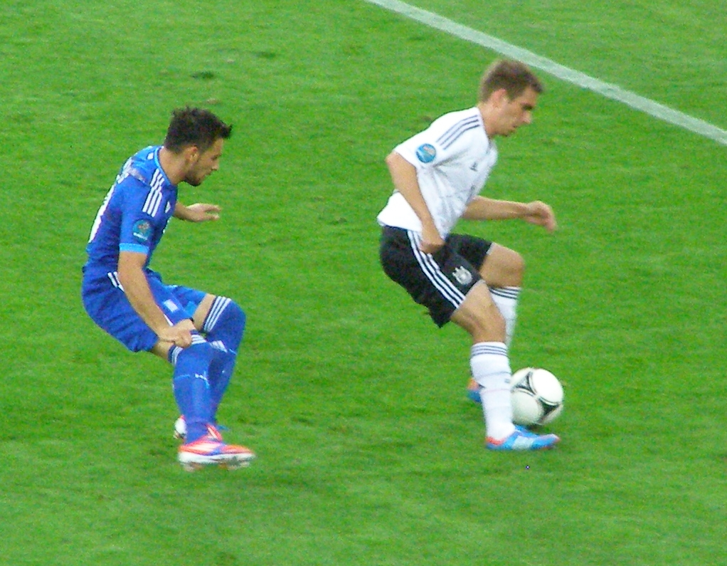 Gdańsk - PGE Arena - Euro 2012 - quarter final match Germany - Greece - Philipp Lahm